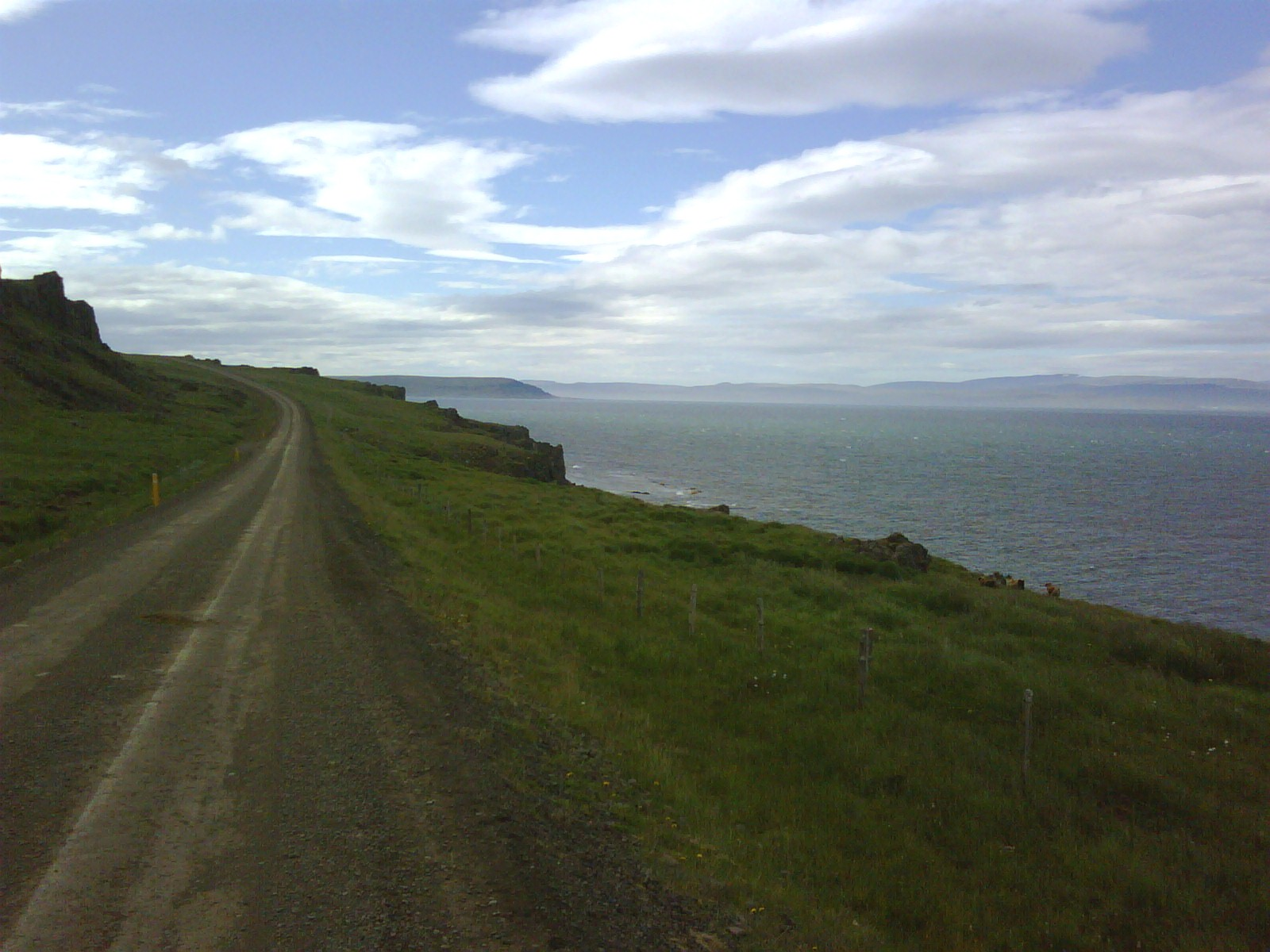 Road 711